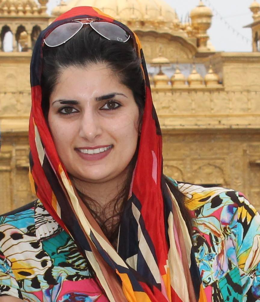 Sonika Kaliraman with Deepika Kaliraman at Golden Temple